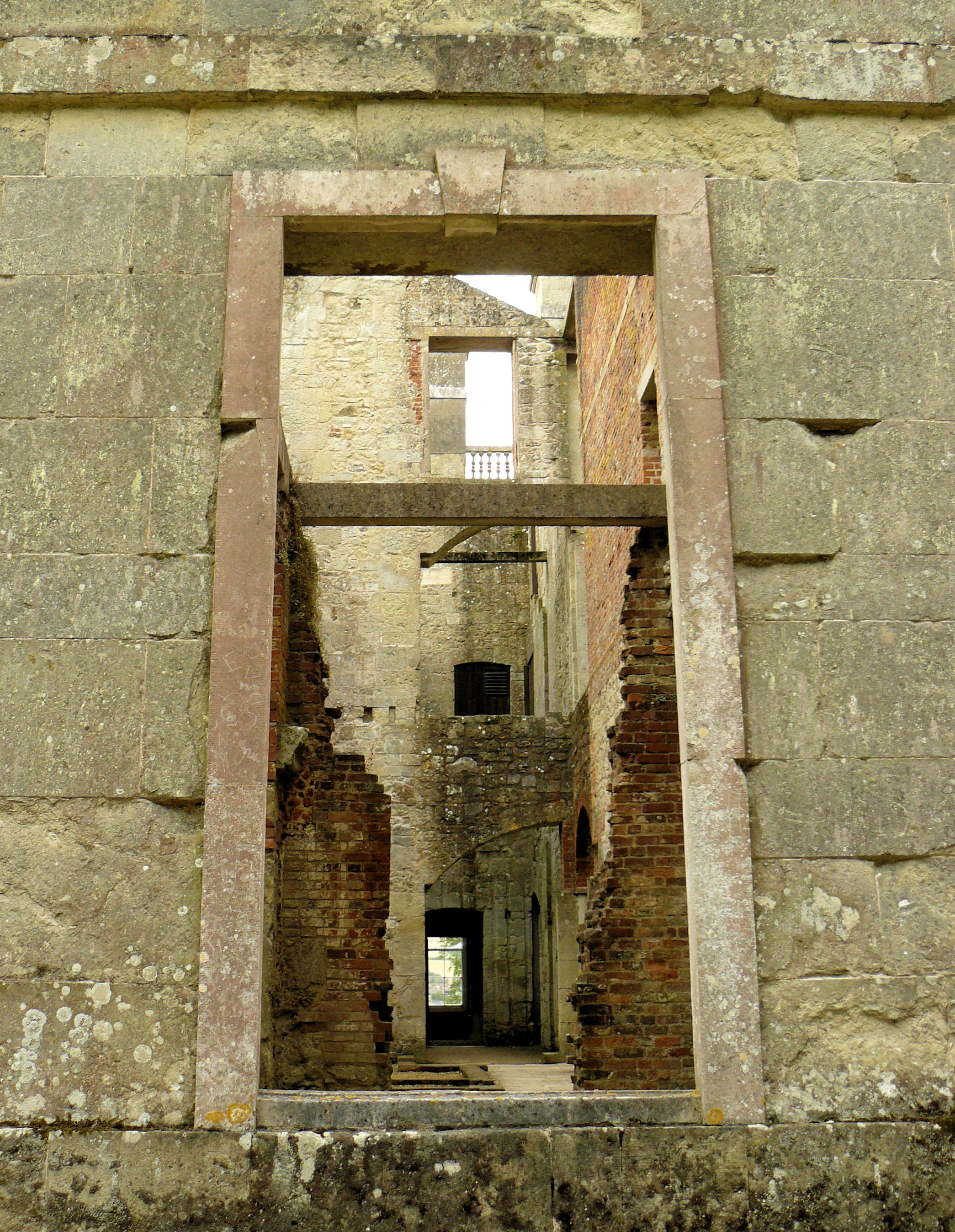 Image showing an example of the ruined interior of Appuldurcombe House (Isle of Wight, UK).